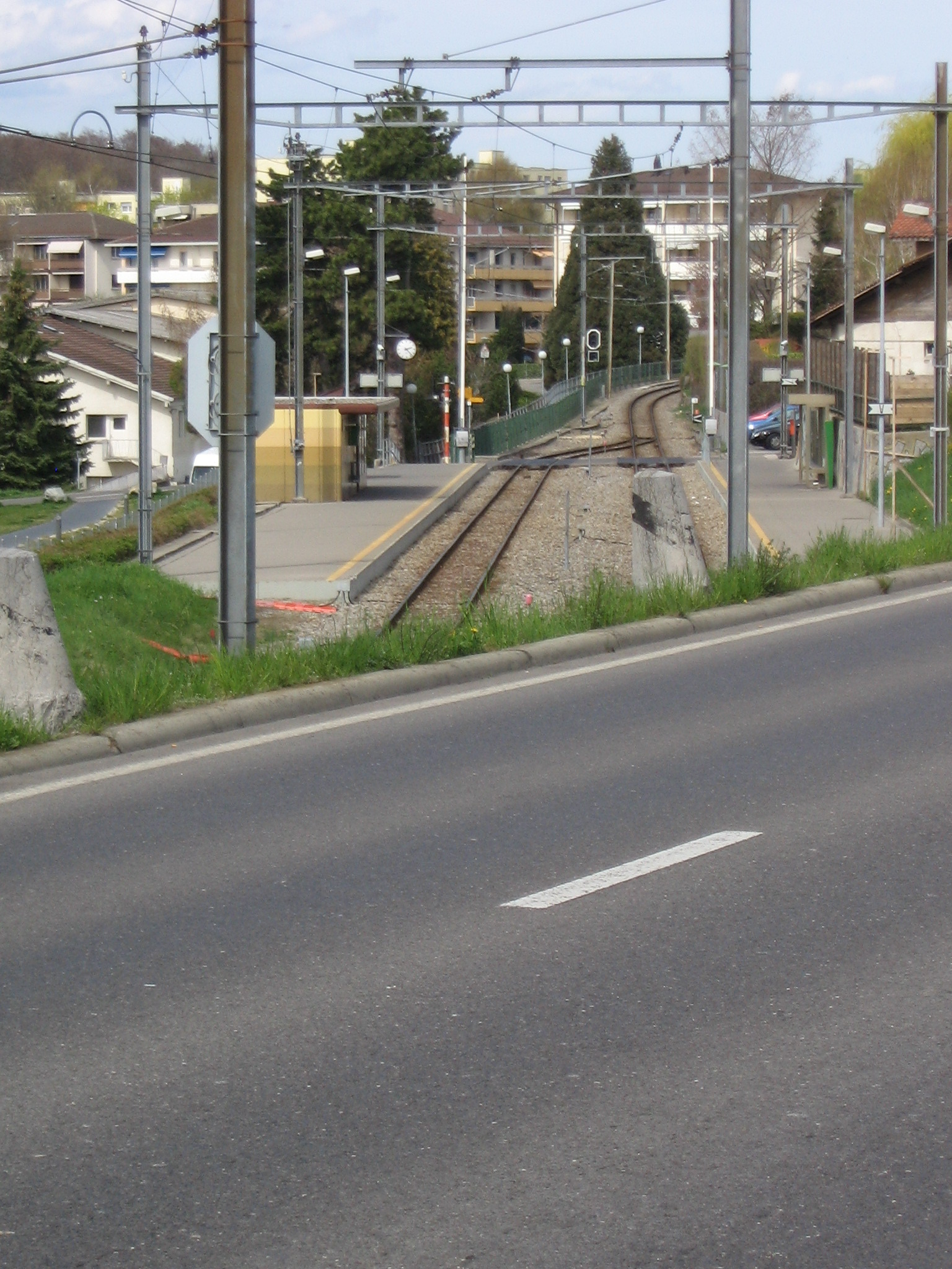 Remote view from the station of Romanel-sur-Lausanne.